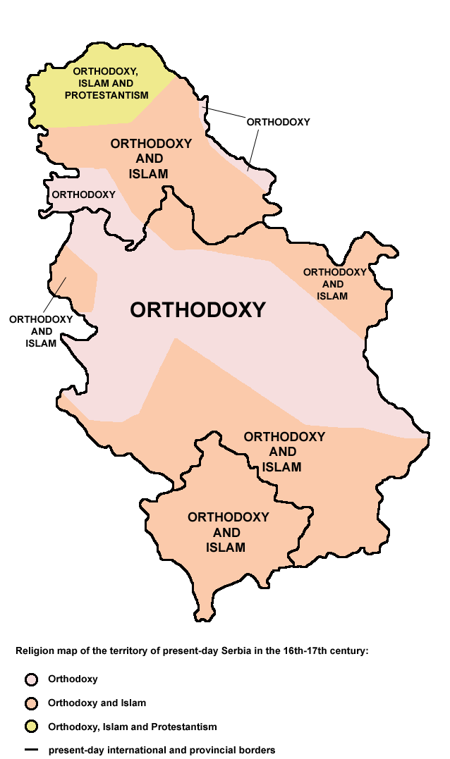 Religion map of the territory of present-day Serbia in the 16th-17th century. Верска мапа територије данашње Србије у 16-17. веку.